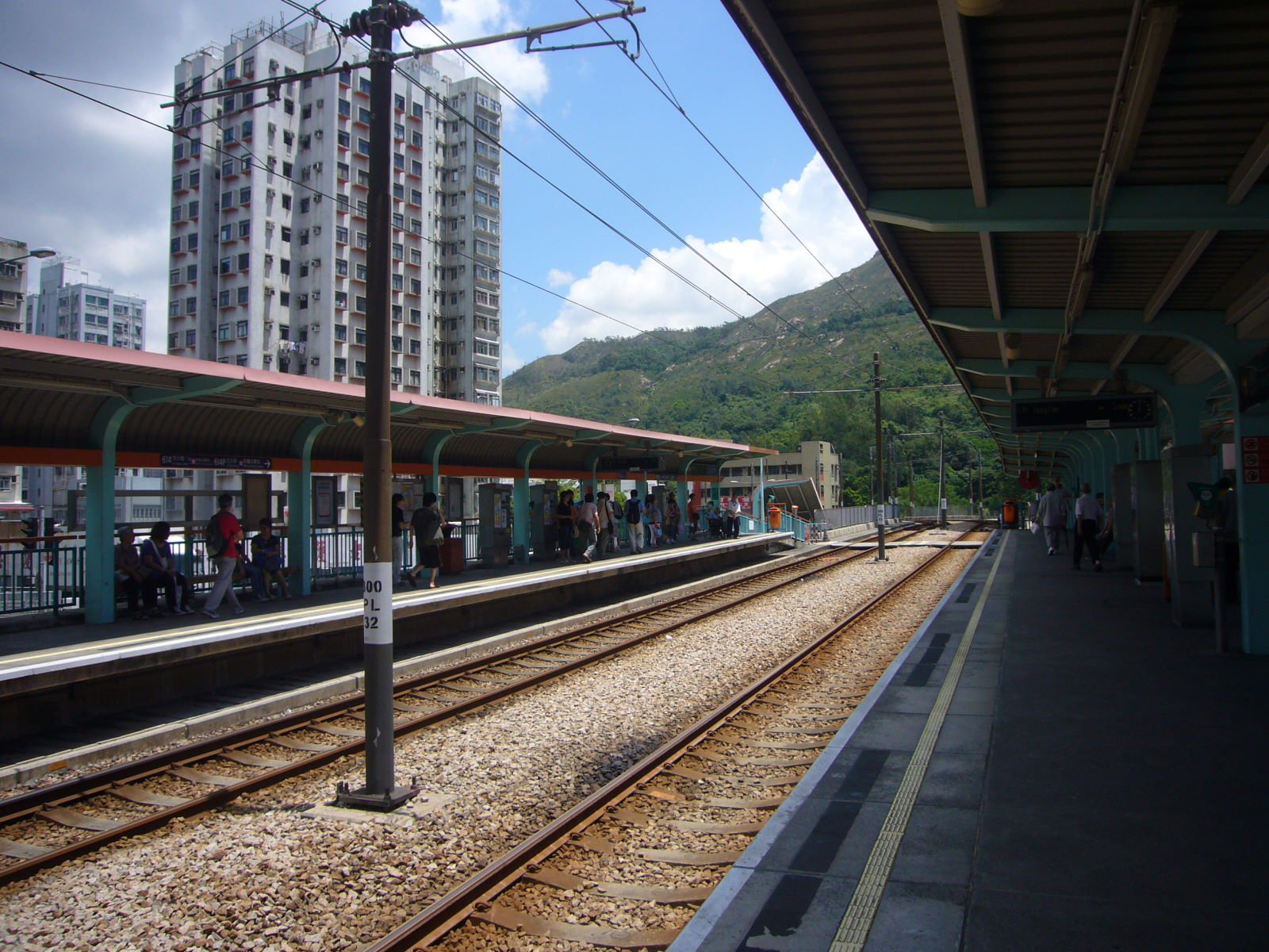 LRT Pui To Stop, MTR HK